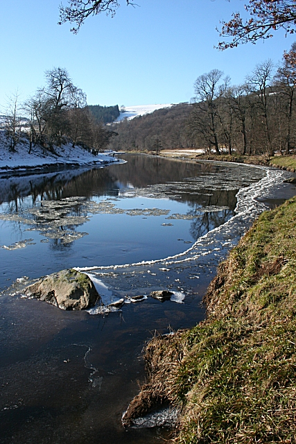 River Deveron A shelf of ice extends from the bank of the river, built up from ice floating downriver. It is interesting to see that the fastest part of the current is marked out by ice 'pancakes'.